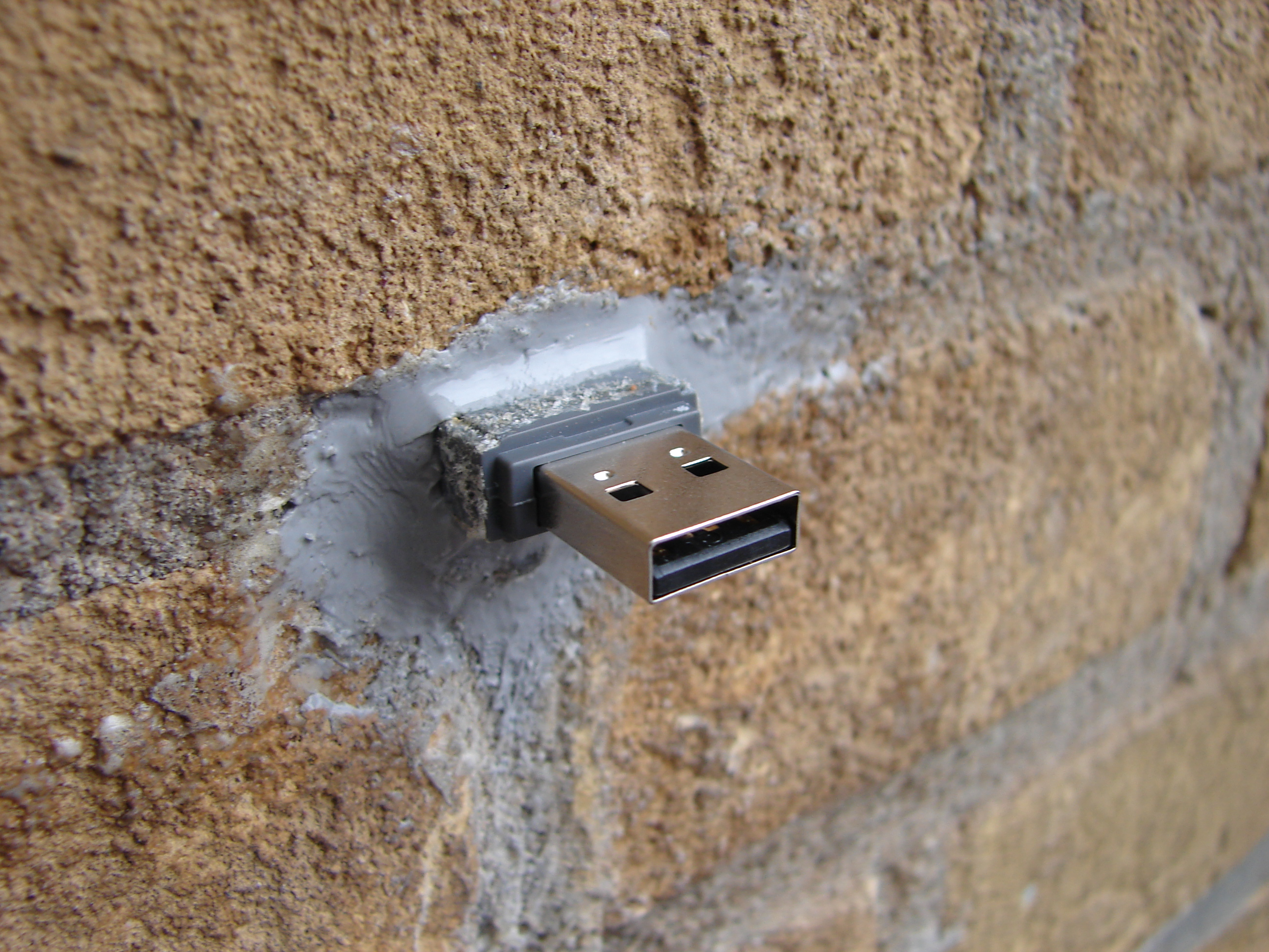 ‘Dead Drops’ is an anonymous, offline, peer to peer file-sharing network in public space. USB flash drives are embedded into walls, buildings and curbs accessable to anybody in public space. Everyone is invited to drop or find files on a dead drop. Plug your laptop to a wall, house or pole to share your favorite files and data. Each dead drop is installed empty except a file explaining the project. ‘Dead Drops’ is open to participation. If you want to install a dead drop in your city/neighborhood follow the ‘how to’ instructions.